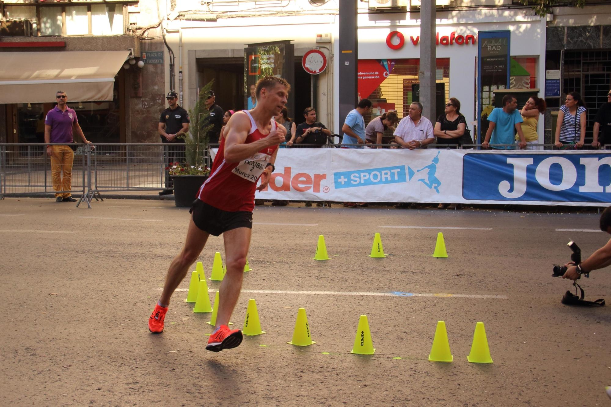 2-Dzmitry Dziubin (BLR) in the 11th European Cup Race Walking Murcia ESP 17 May 2015